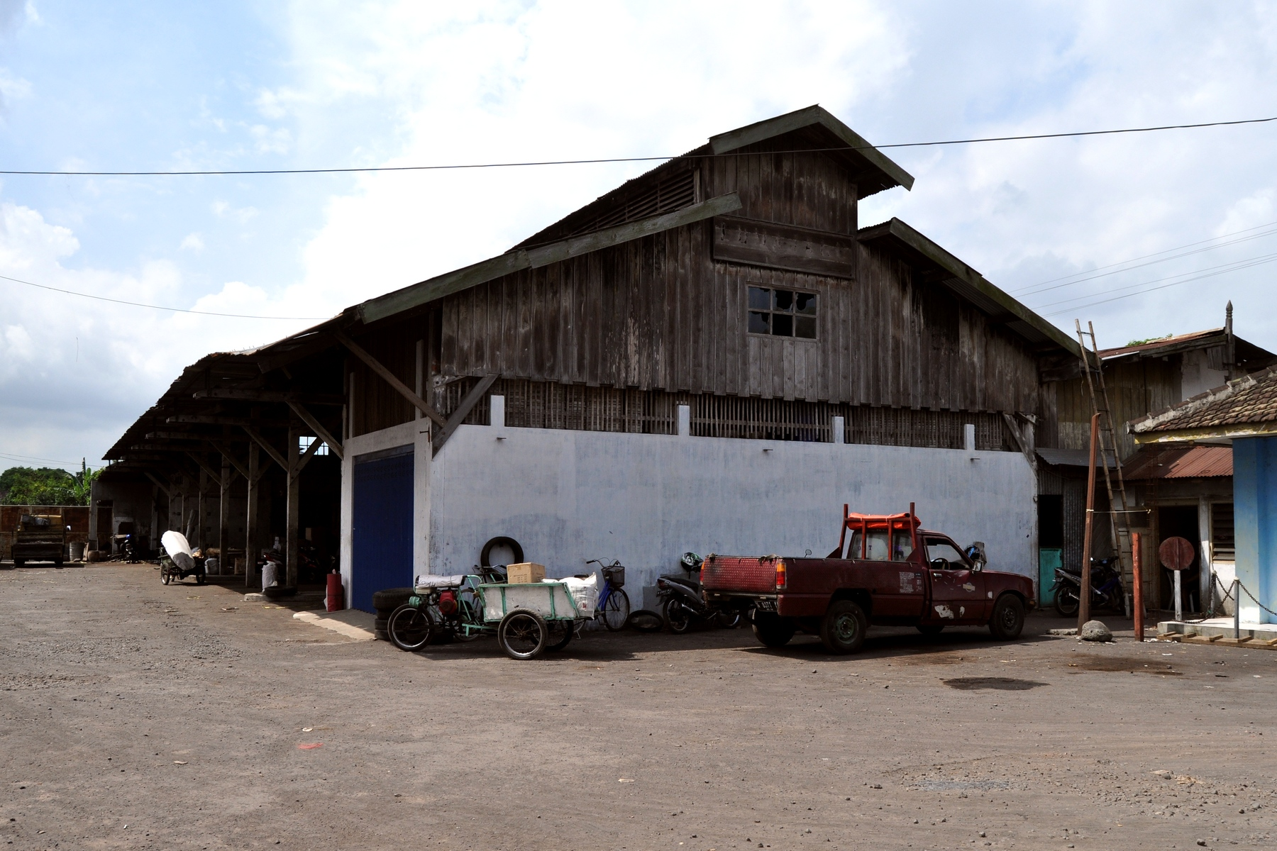 Ex Lumajang train station in Lumajang, East Java, Indonesia. Now its becoming a storehouse; south view.